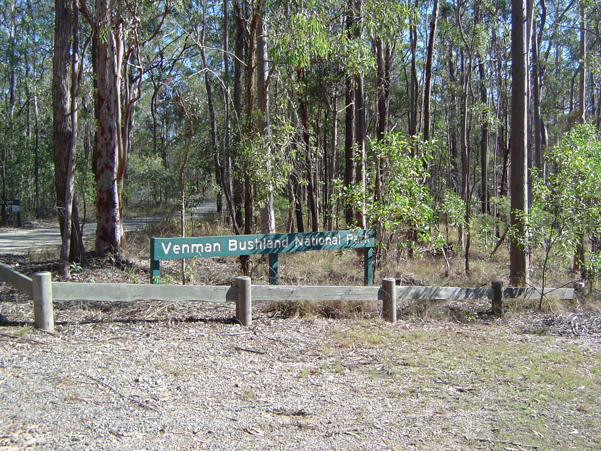 Photo of Venman Bushland National Park entrance sign at Mount Cotton, Redland City, Queensland, Australia.